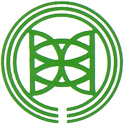 Sekikawa Niigata chapter